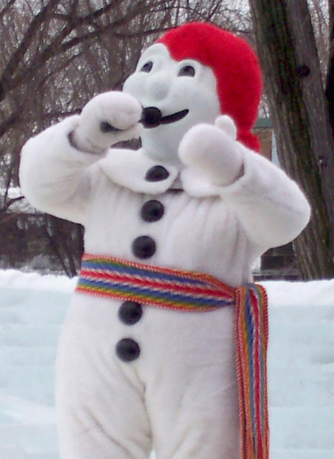 Bonhomme Carnaval - Carnaval d'hiver de Québec (2006-02) Bonhomme Carnaval - Quebec City winter carnival (2006-02)